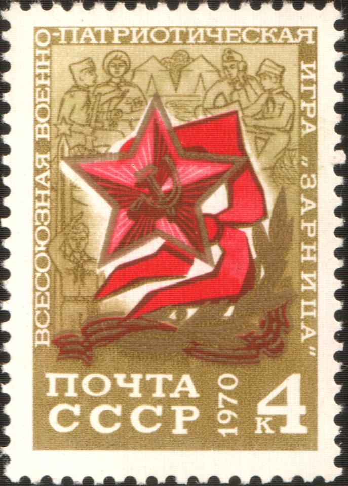 USSR stamp: Red Star, Red Scarf and Scenes from Zarnitsa GameRed Star, Red Scarf and Scenes from Zarnitsa Game. Series: Pioneer Organization